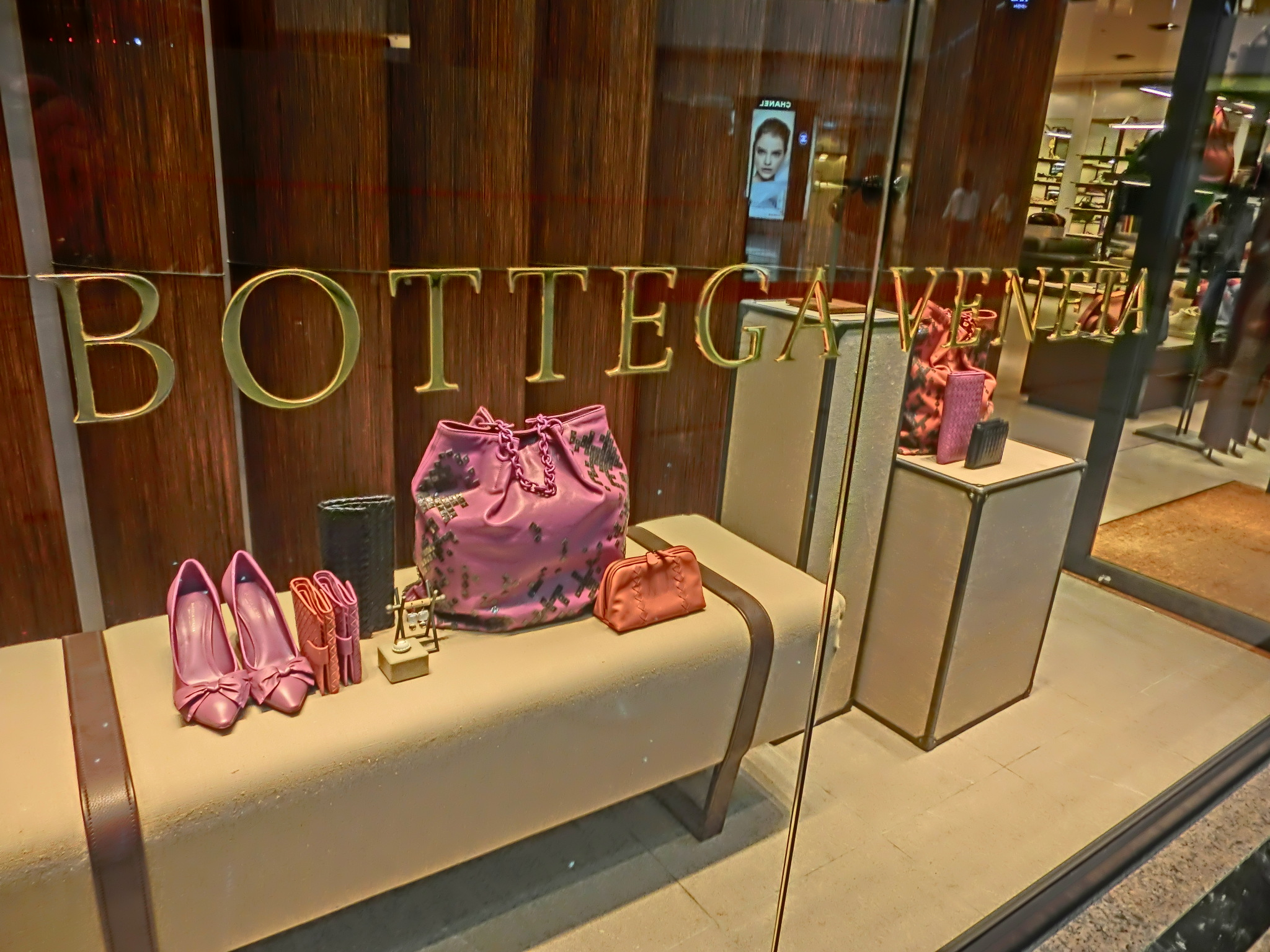 Night in Times Square, Causeway Bay, Hong Kong